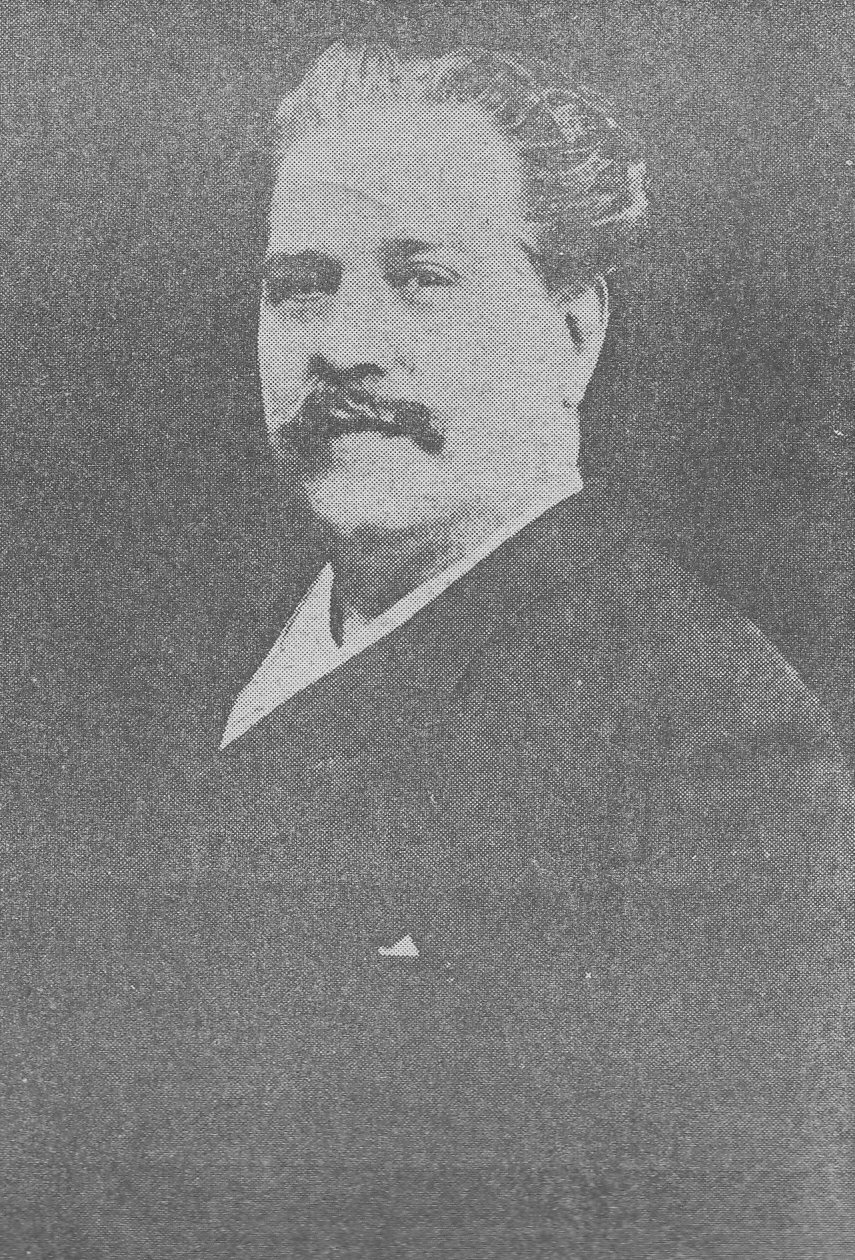 Ernesto Rossi, Italian actor (1827-1896)